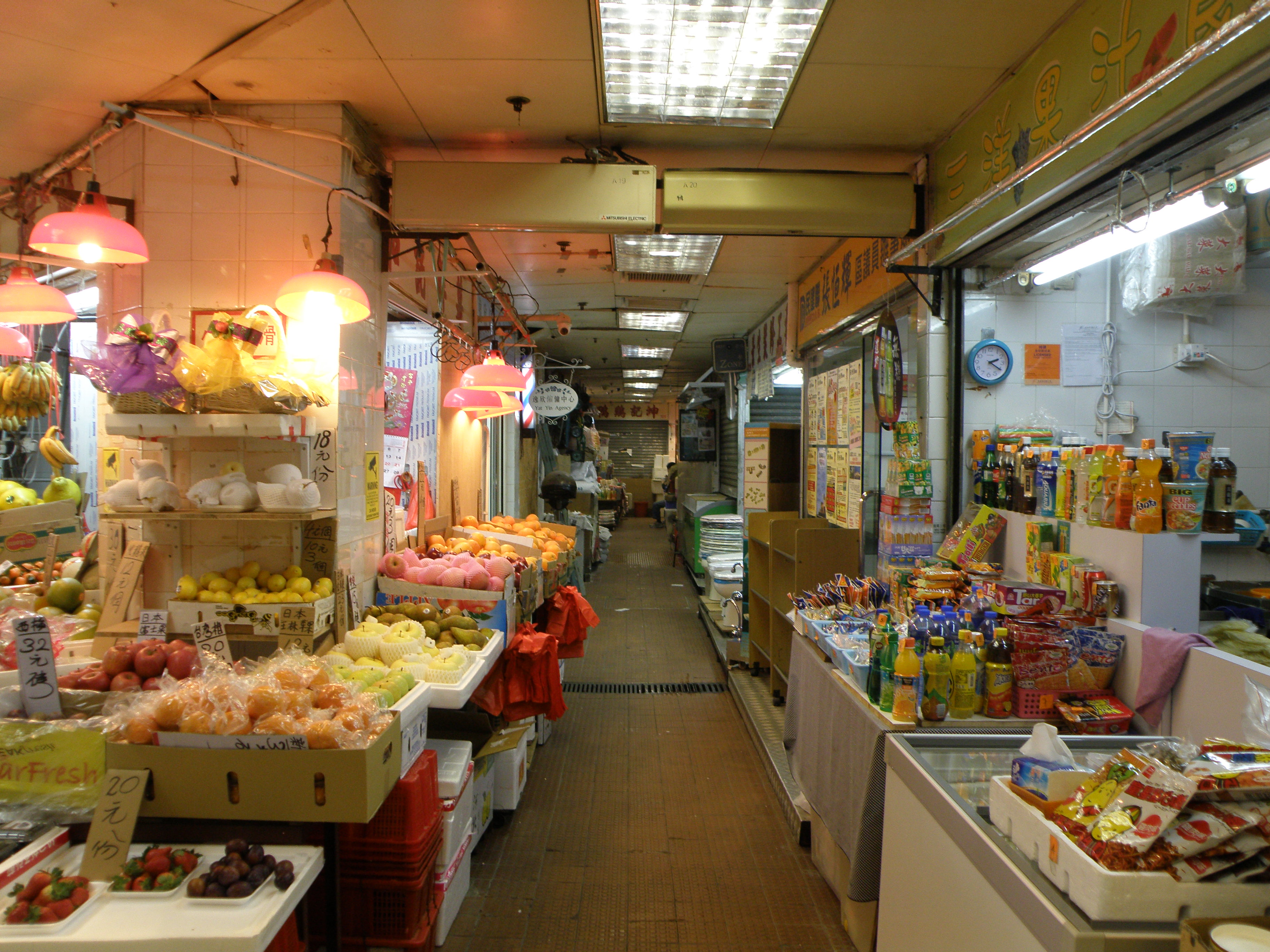 Yuet Wu Market in Tuen Mun, Hong Kong.